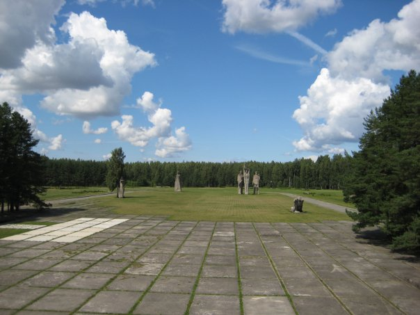 A view looking at the huge Soviet-built concrete statues which form part of the memorial at the former Salaspils Stalag/concentration camp